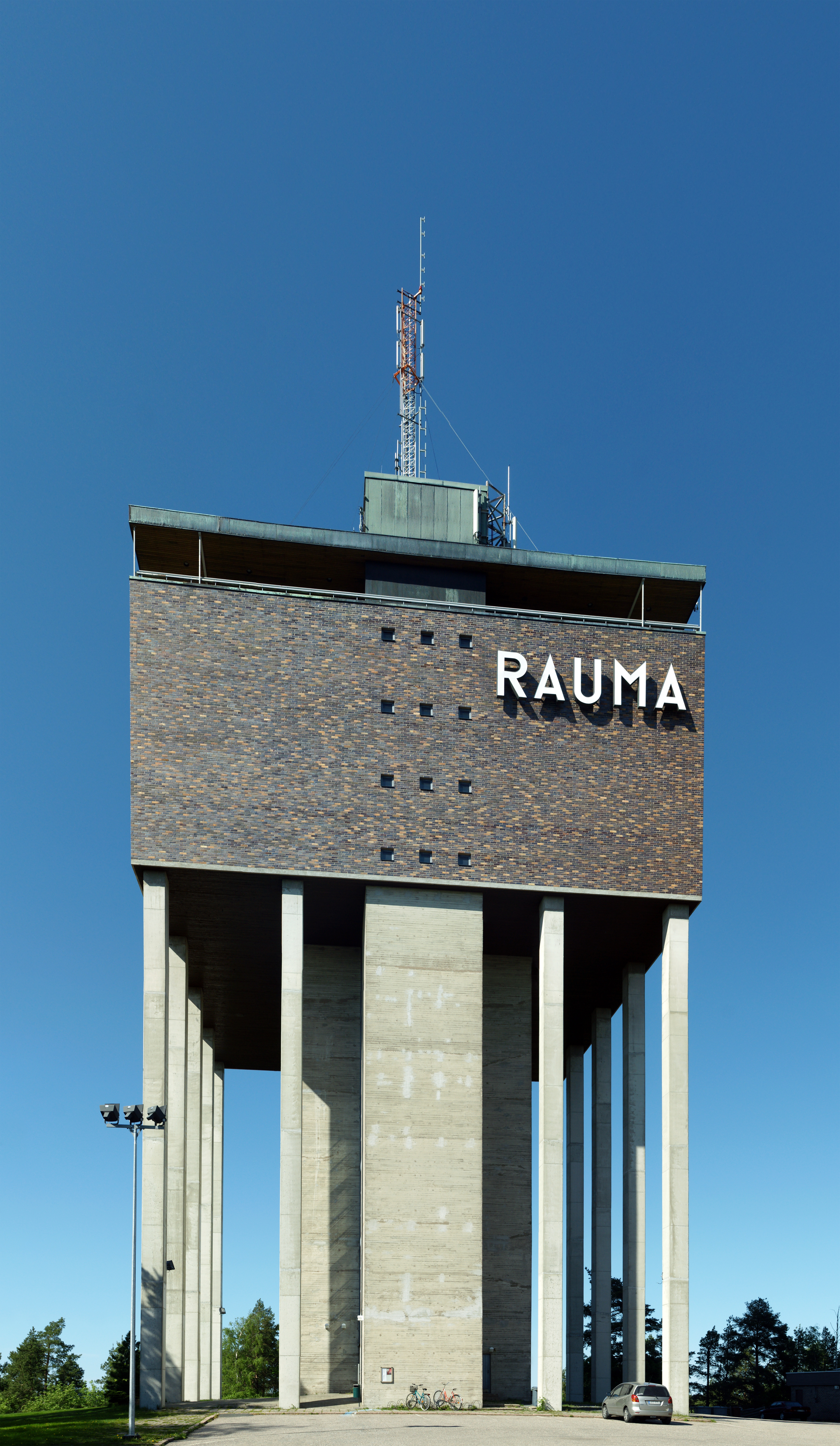 Rauma watertower.